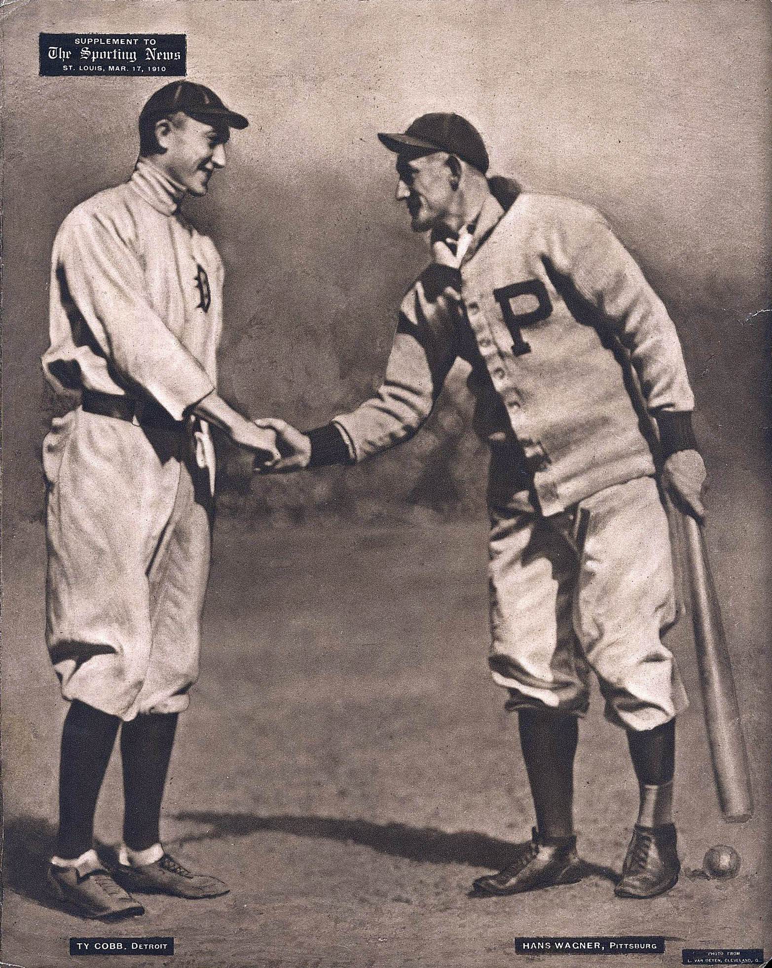 1910 (March 17) M101-2 Sporting News Supplement of Ty Cobb and Honus Wagner; image taken at previous year's World Series between Detroit and Pittsburgh.